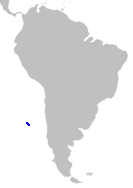 Plant genus Lactoris distribution map